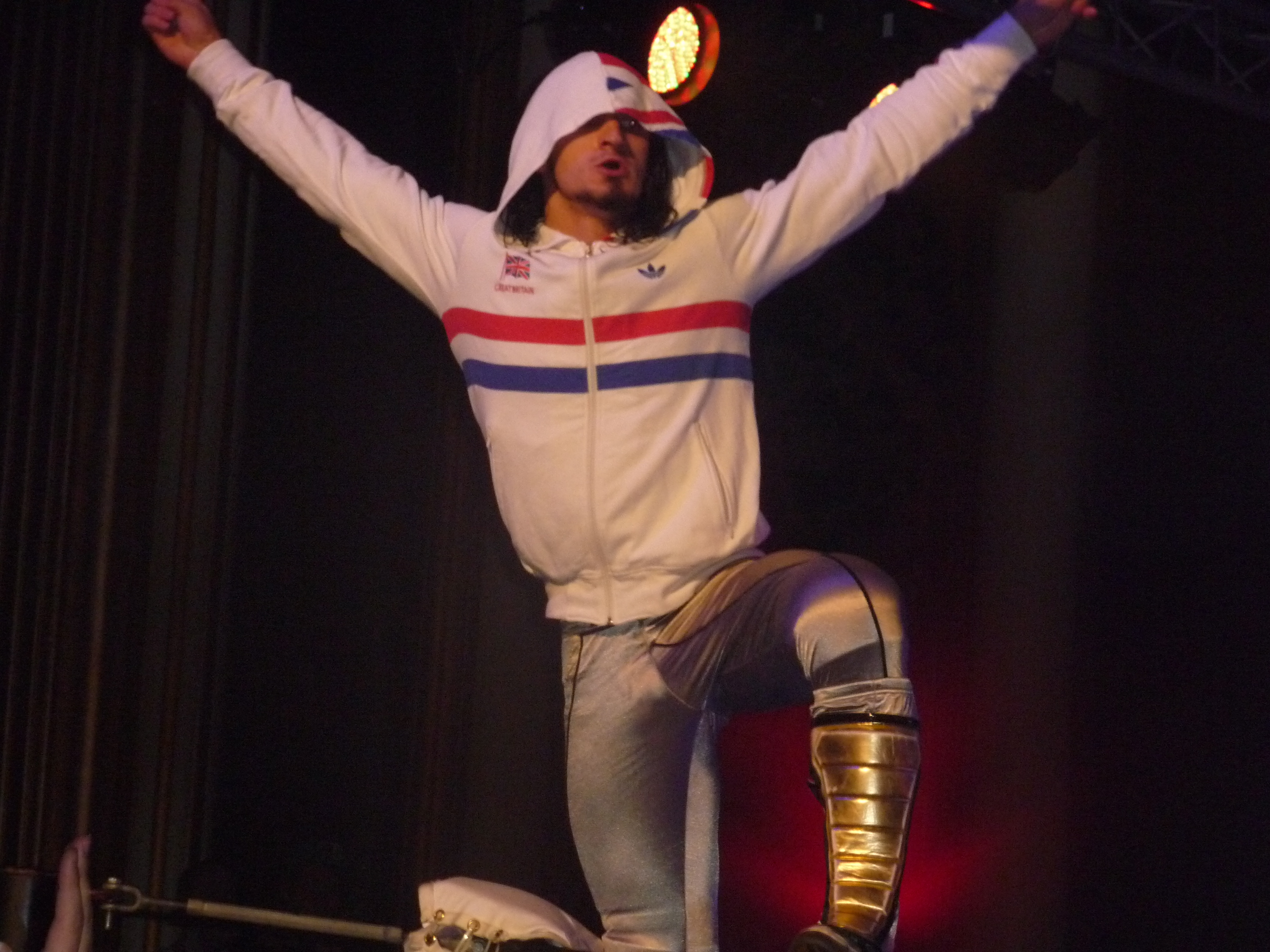 UK wrestler PAC appearing for Dragon Gate in Oxford, UK (Nov 1st 2009)